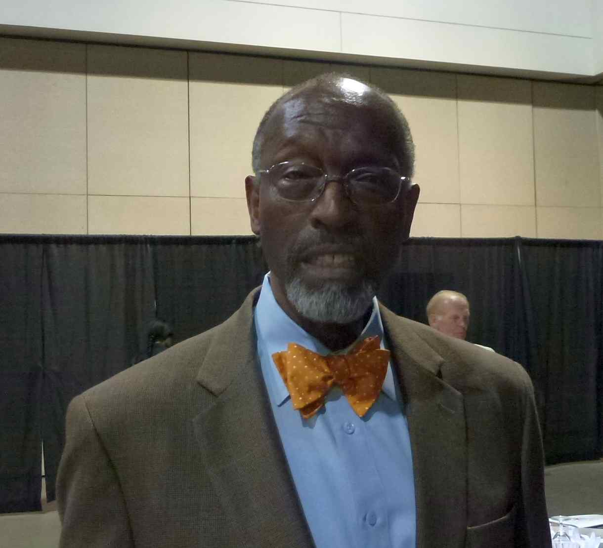 Thomas Satch Sanders at the New England Basketball Hall of Fame induction dinner, when he was being inducted into the Hall of Fame.